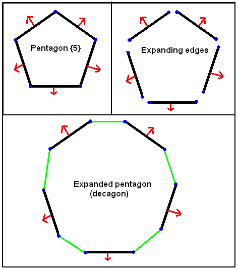 A poor diagram, but best I could do quickly. If anyone can replace, please do! Tom Ruen 06:36, 9 August 2006 (UTC)